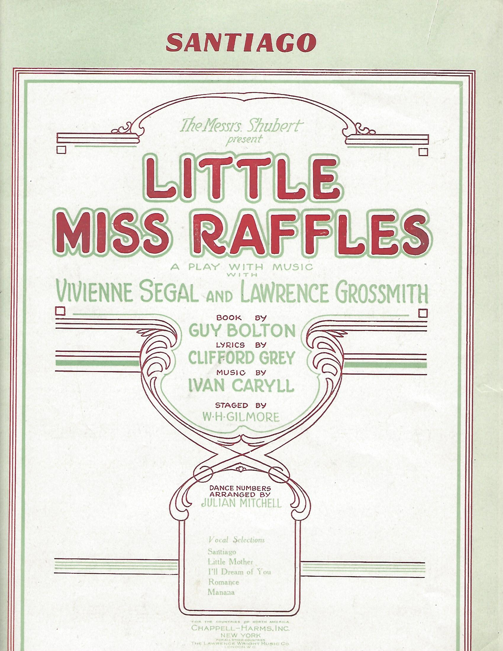 The cover page of a piece of sheet music from a show